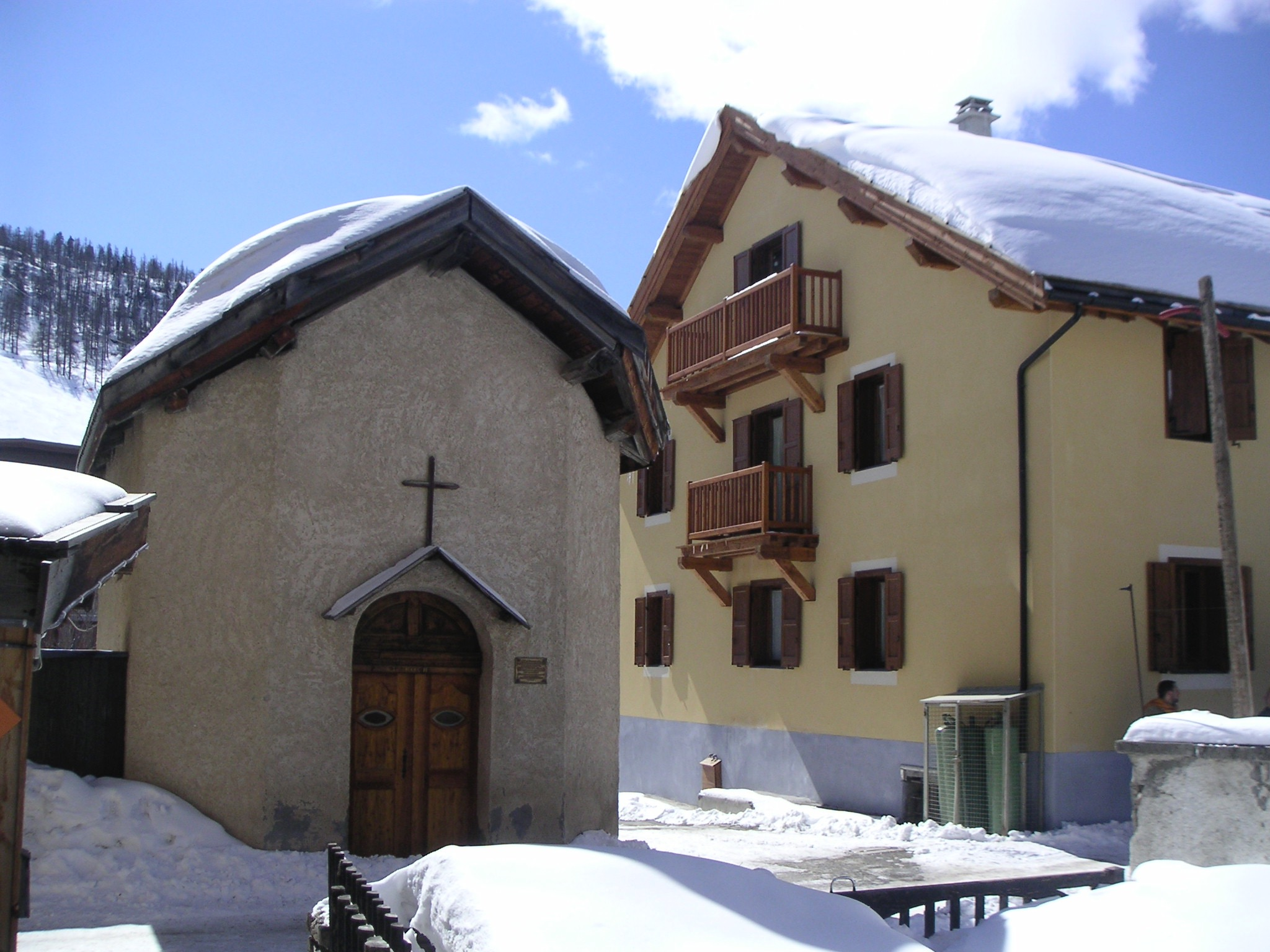 MINOLTA DIGITAL CAMERA